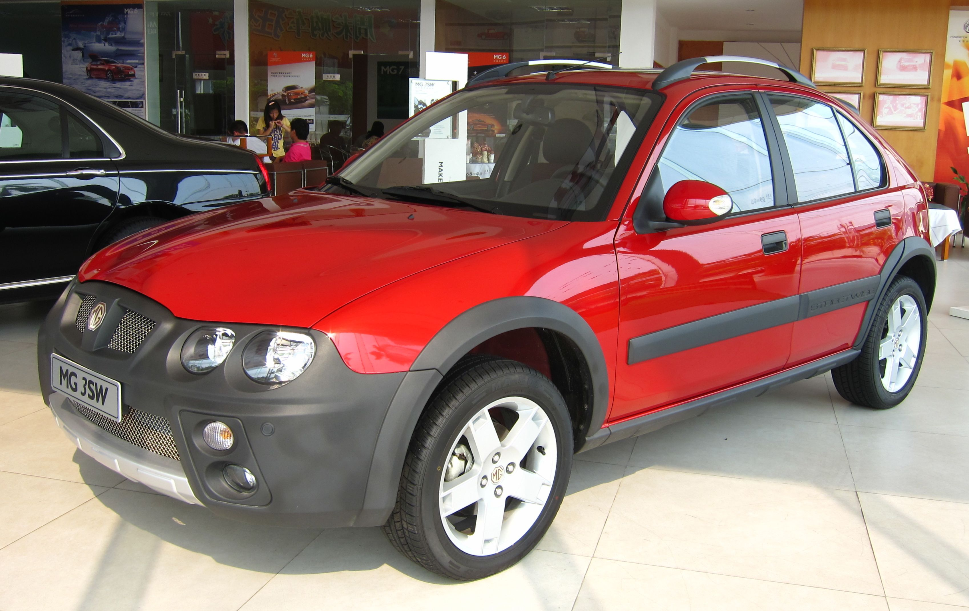 2010 MG 3 StreetWise in a showroom in China